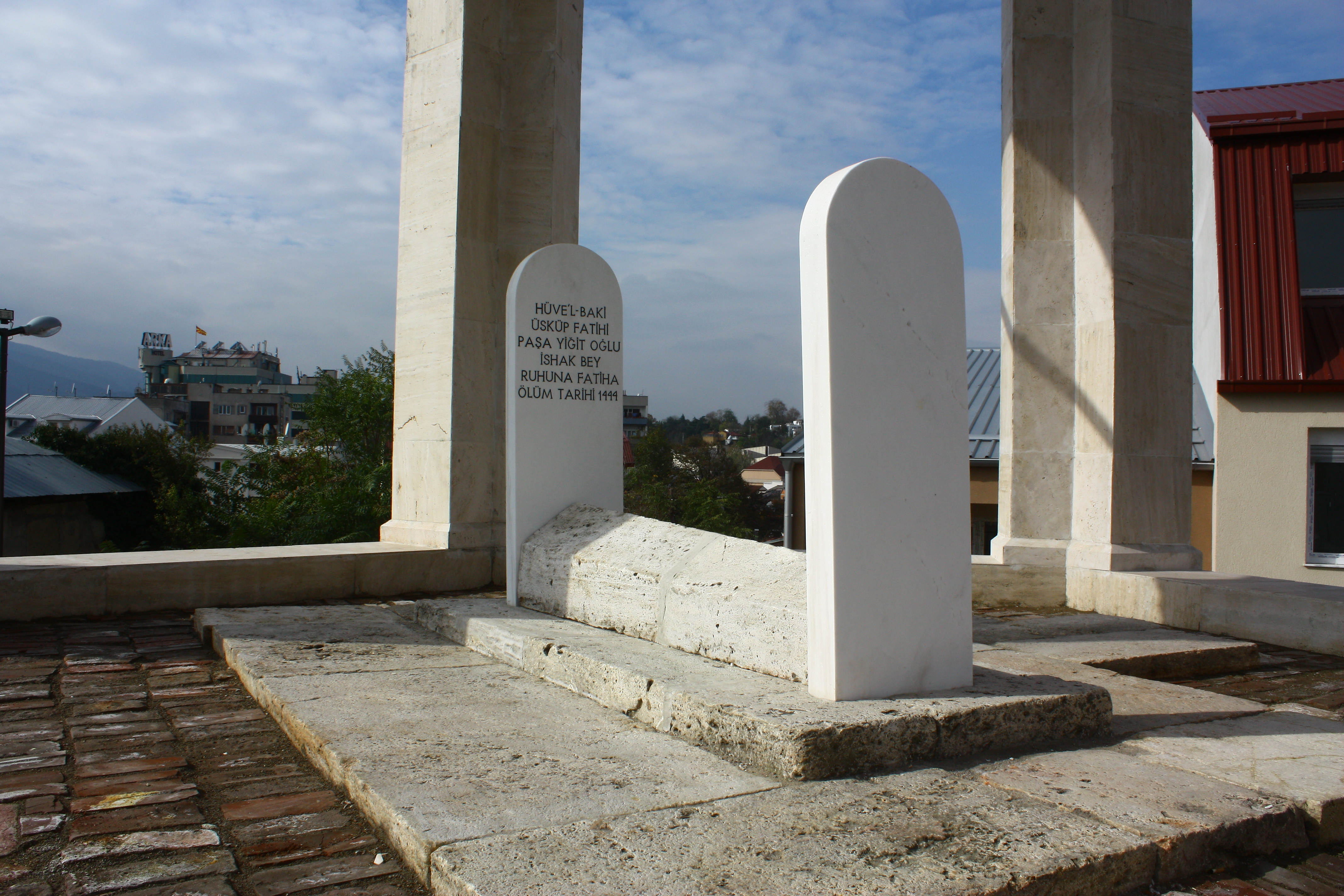 Gazi Ishaq Beg's Mausoleum-Macedonia Ова е фотографија на споменик на културата во Македонија со типски код: А02This is a a photo of a cultural monument in North Macedonia with type id: А02